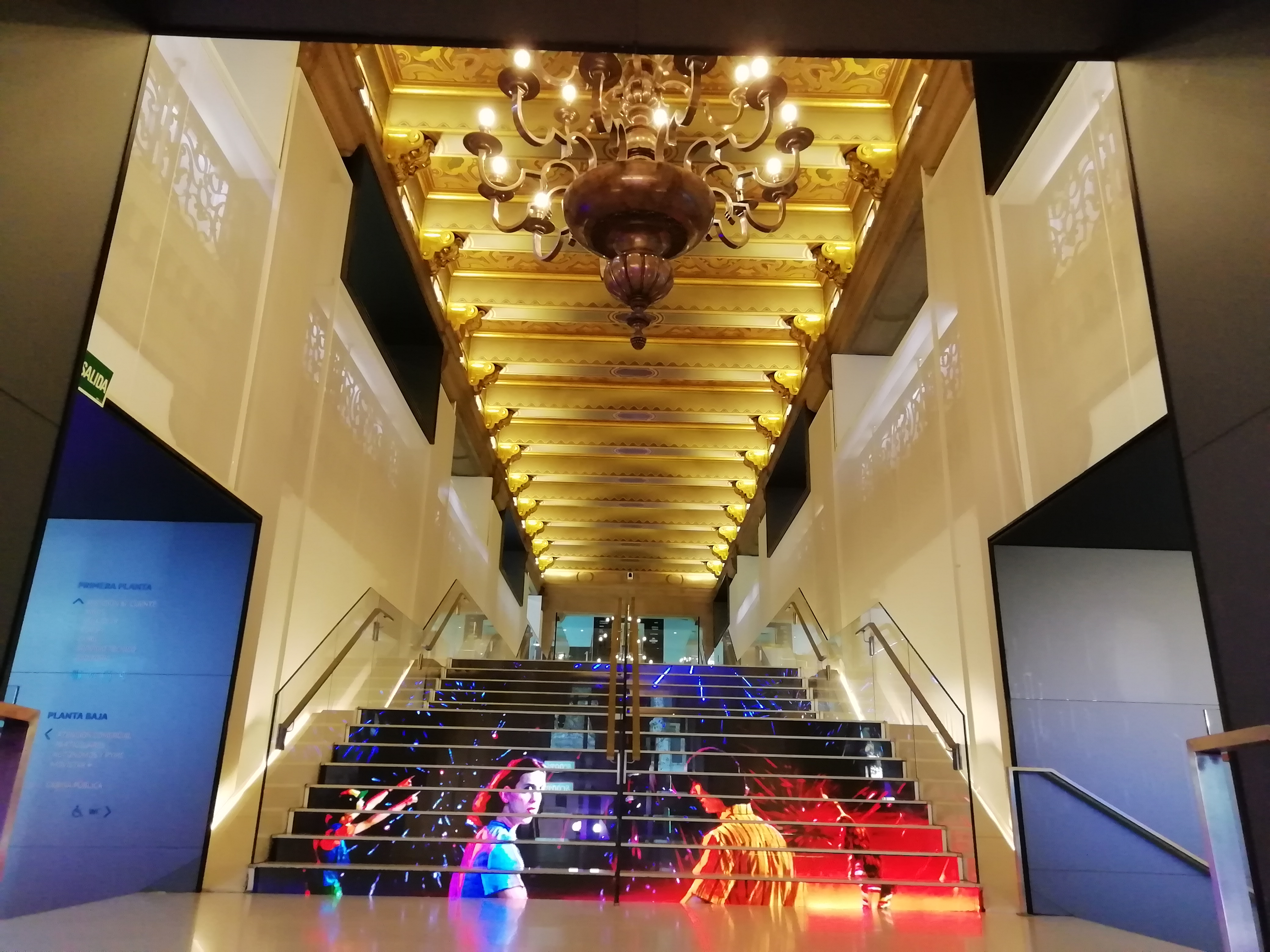 Telefónica Flagship Store at Telefónica Building in Gran Vía 28, Madrid